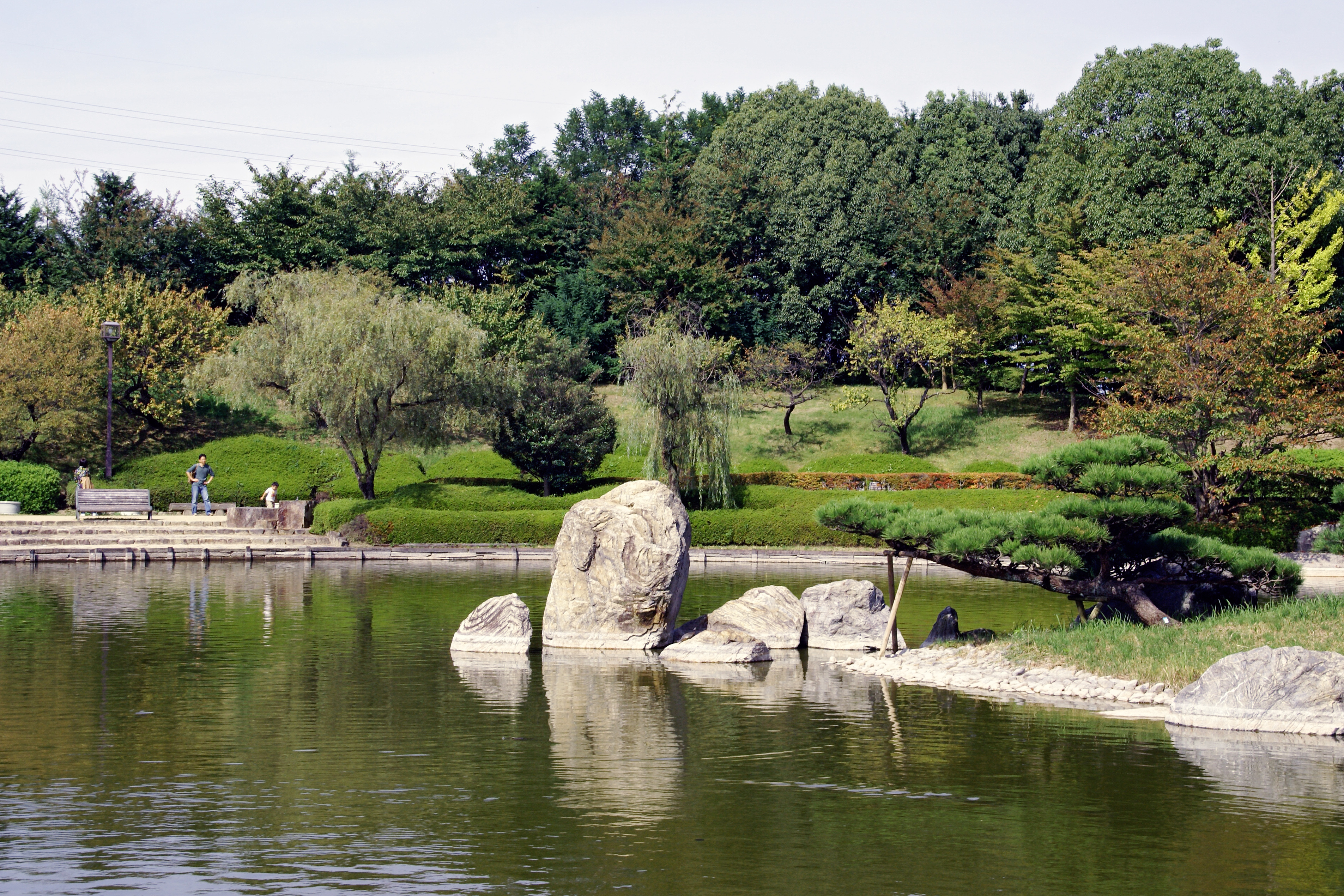 Biwakobunka-koen (Biwako Cultural Park) in Otsu, Shiga prefecture, Japan